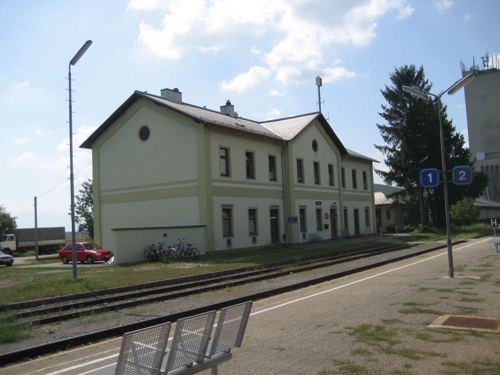 Raasdorf train station in Lower Austria